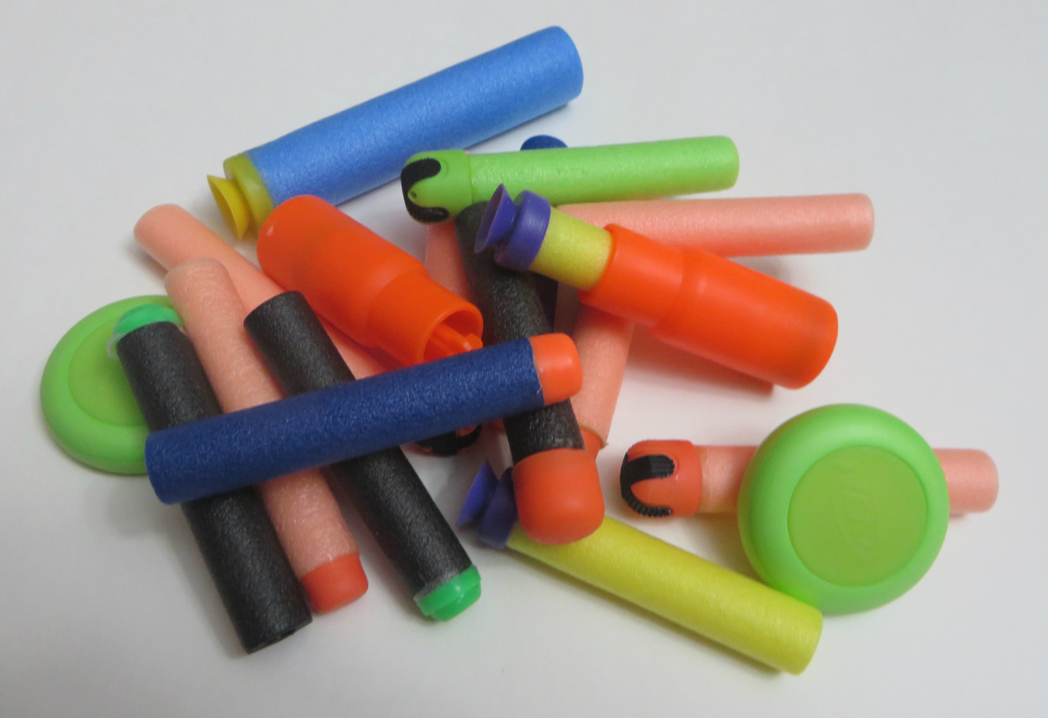 Official and off-brand ammo types for Nerf guns.